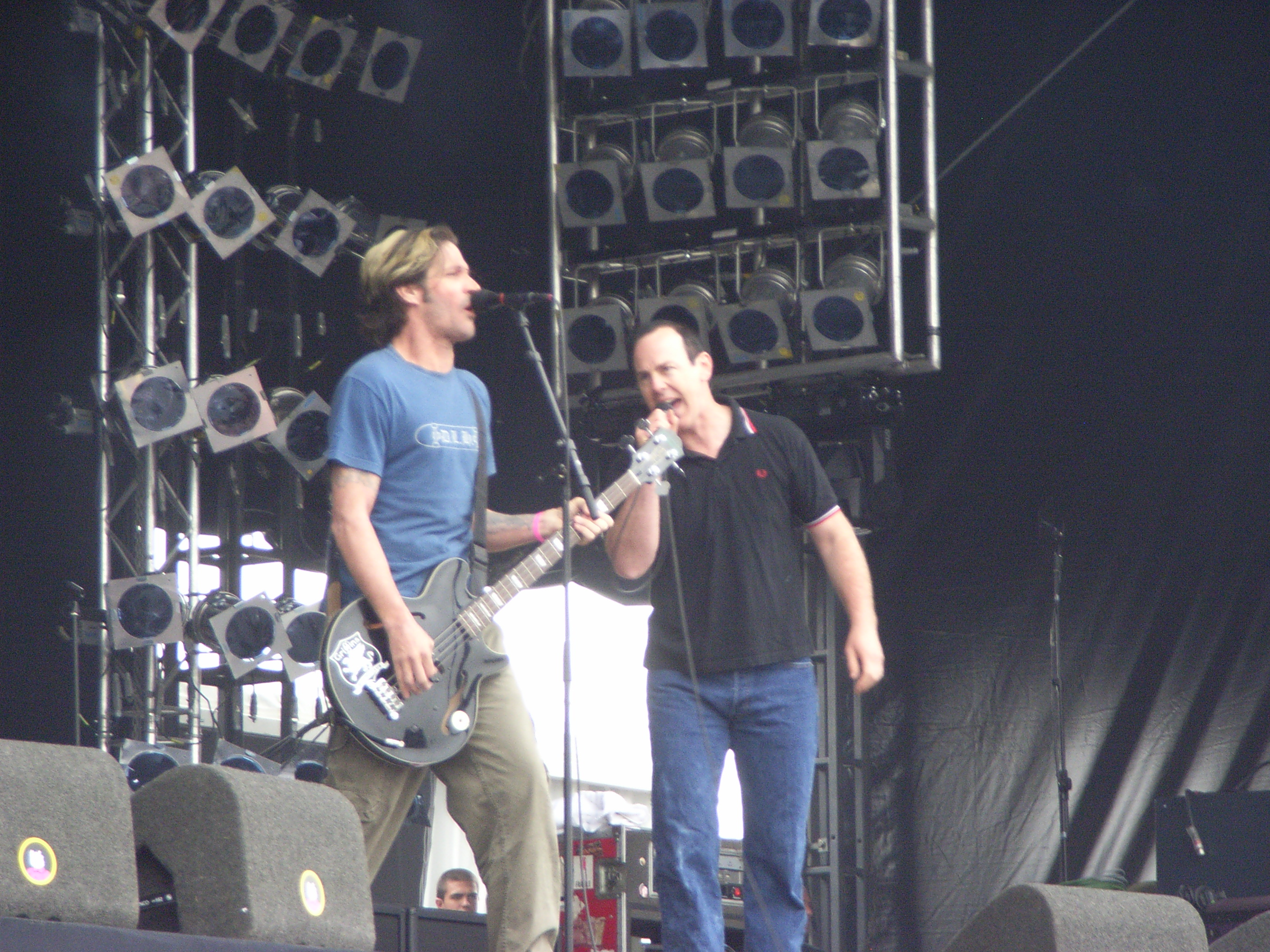 Punkrockband Bad Religion at Pinkpop 2008 (Netherlands)